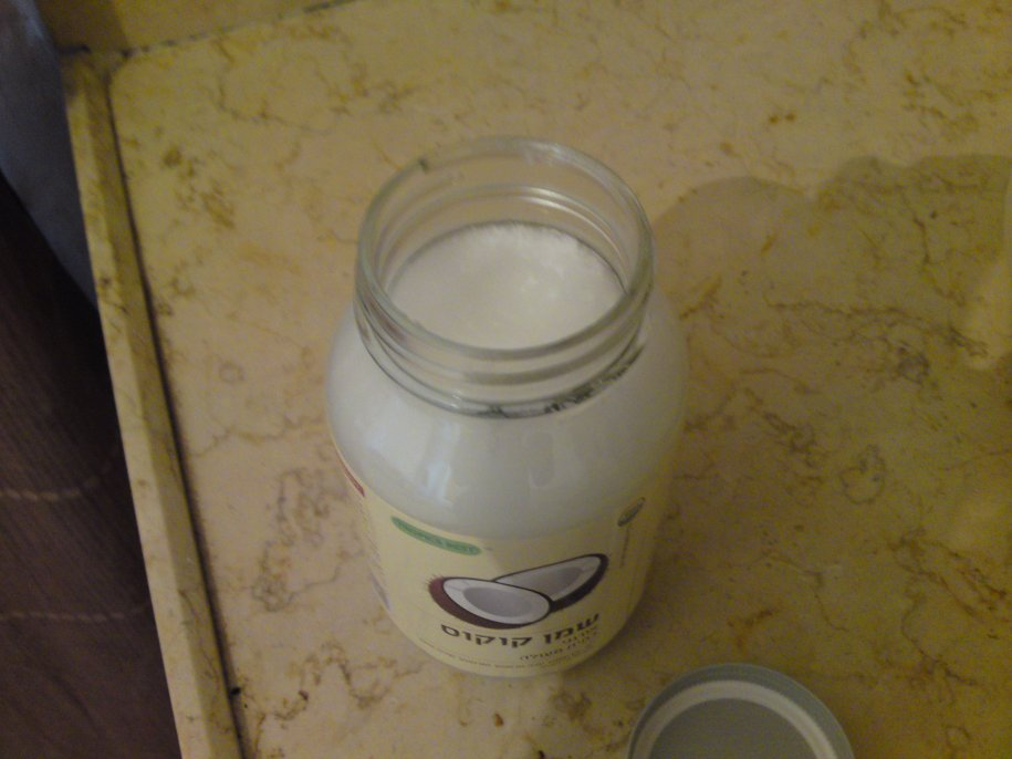 Coconut oil in solid state